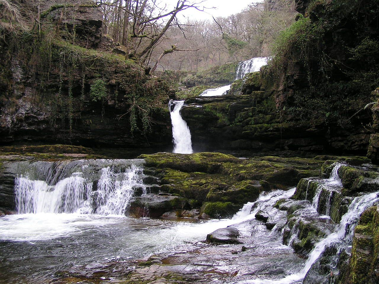 Sgwd Isaf Clun-gwyn, a waterfall on the Afon Mellte near Ystradfellte in the Brecon Beacons National Park . Photograph taken 17th April 2005.